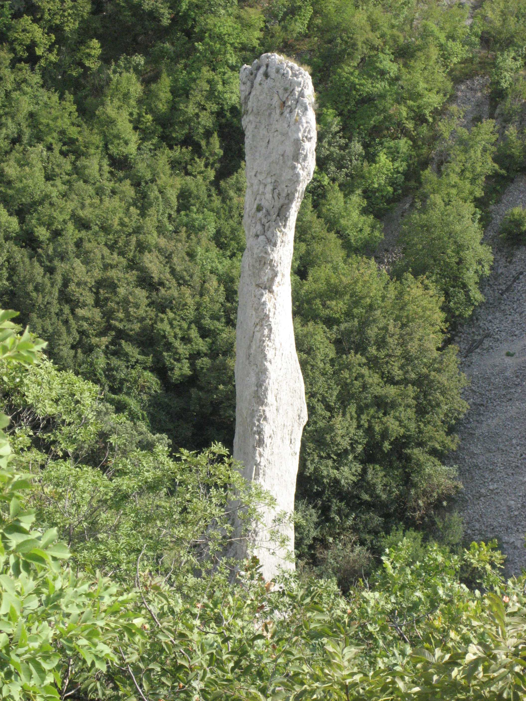 Vela Draga, Natural Obelisk